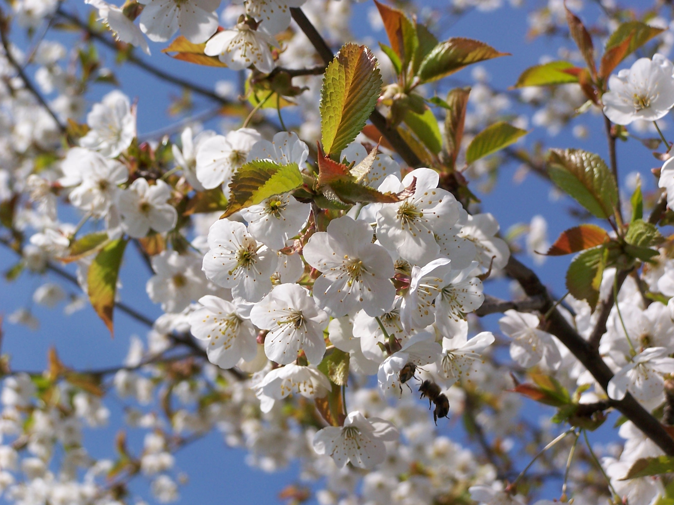 Wild Cherry flowers